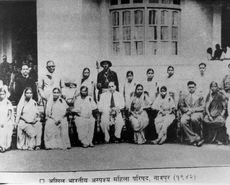 Dr Babasaheb Ambedkar in a group photograph with the leaders and activists of the 'All India Untouchable Women's Conference' held at Nagpur in 1942